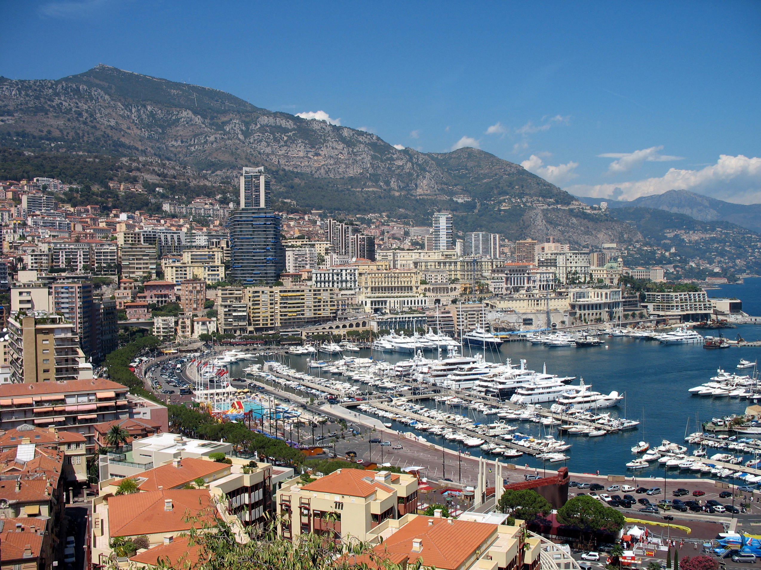 View of Monaco, Harbour and parts of Monte Carlo. In the background Mont Agel (1110 m) on the left. Taken by myself from near the Palace.